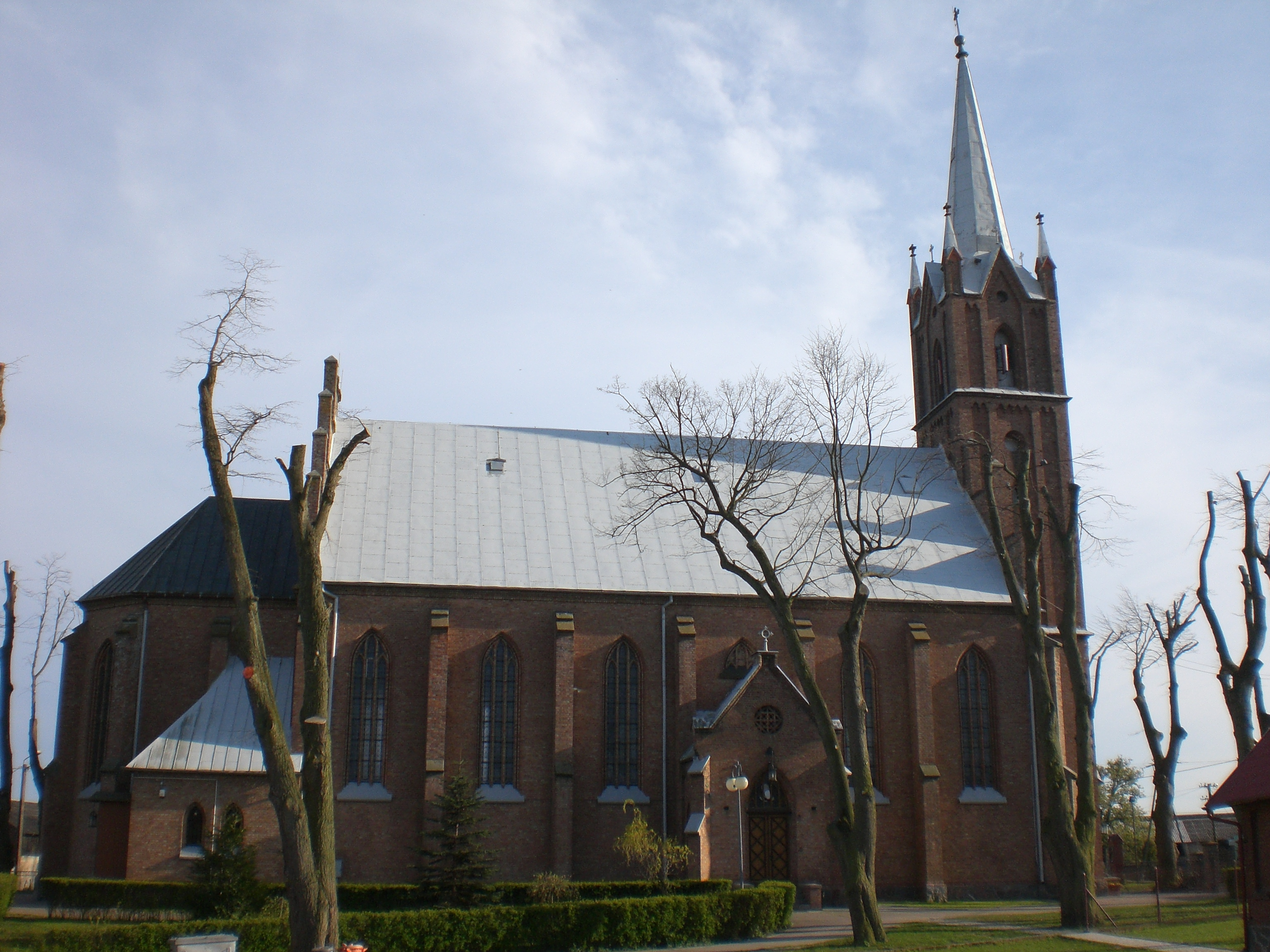 Swarzewo - church from 1880